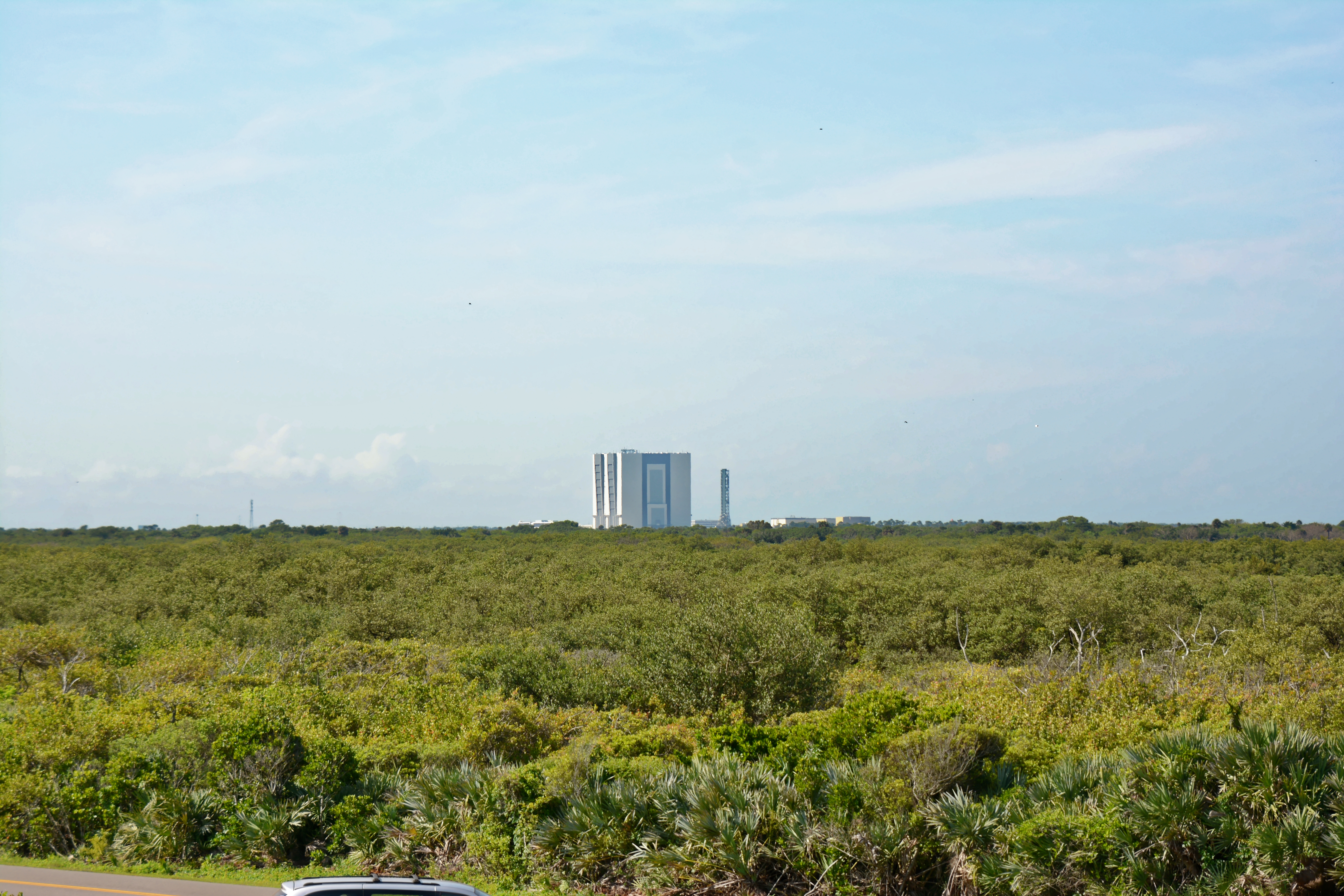 The Vehicle Assembly Building as seen from Playalinda Beach, Florida, U.S.